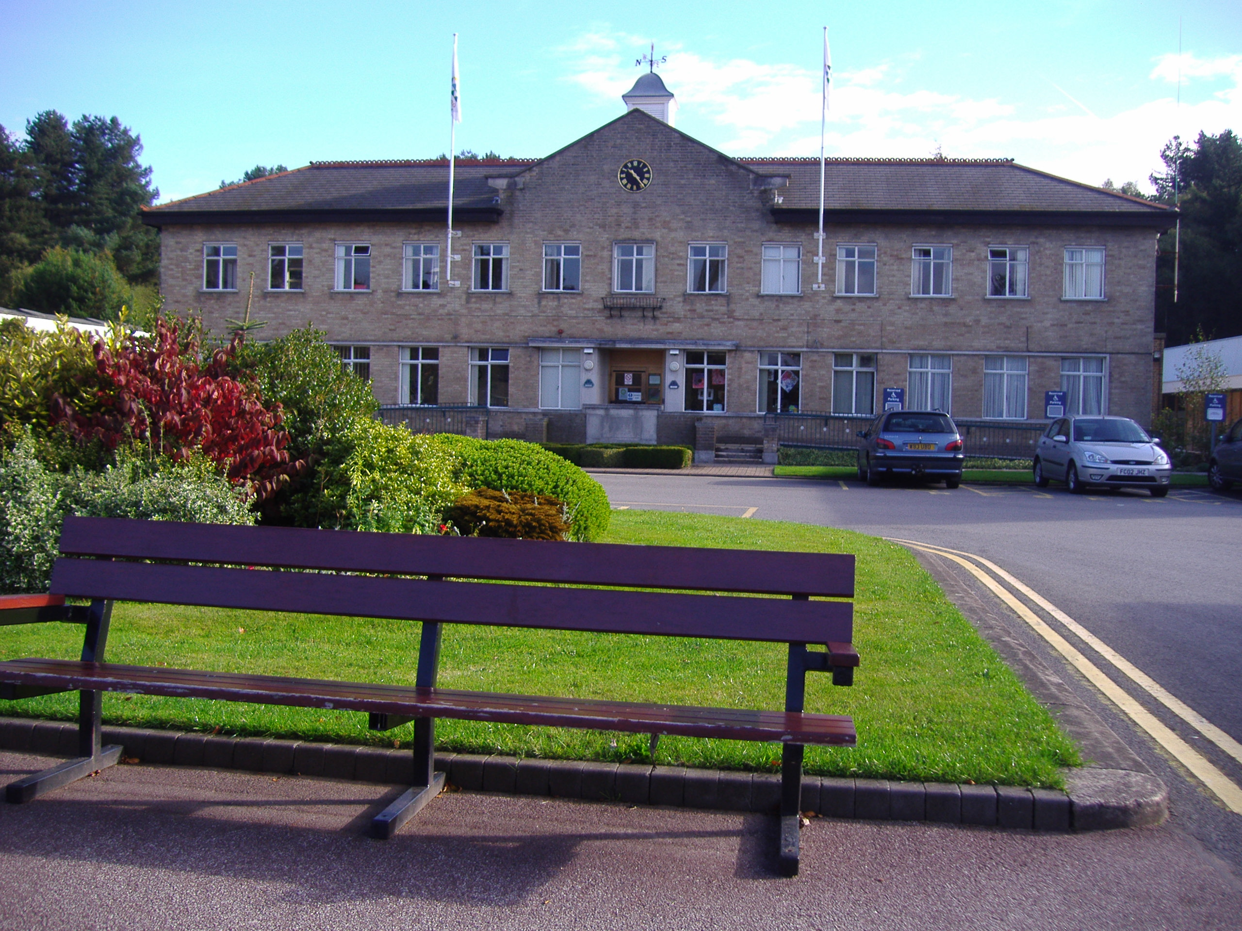 The Admi Block at Portland College.